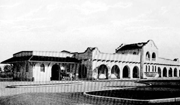 Former Atlantic Coast Line Railroad Sarasota depot.